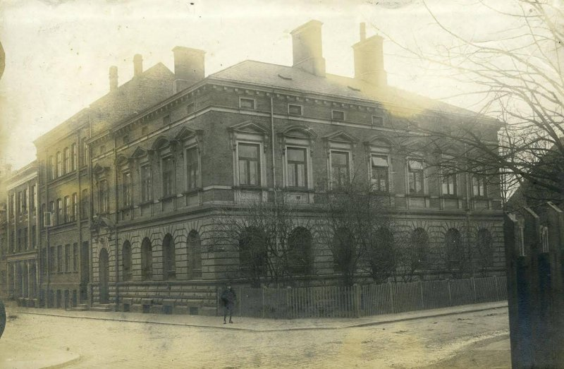 The HQ of Ny jydske Kjøbstad-Creditforening, built 1885, in use to 1912